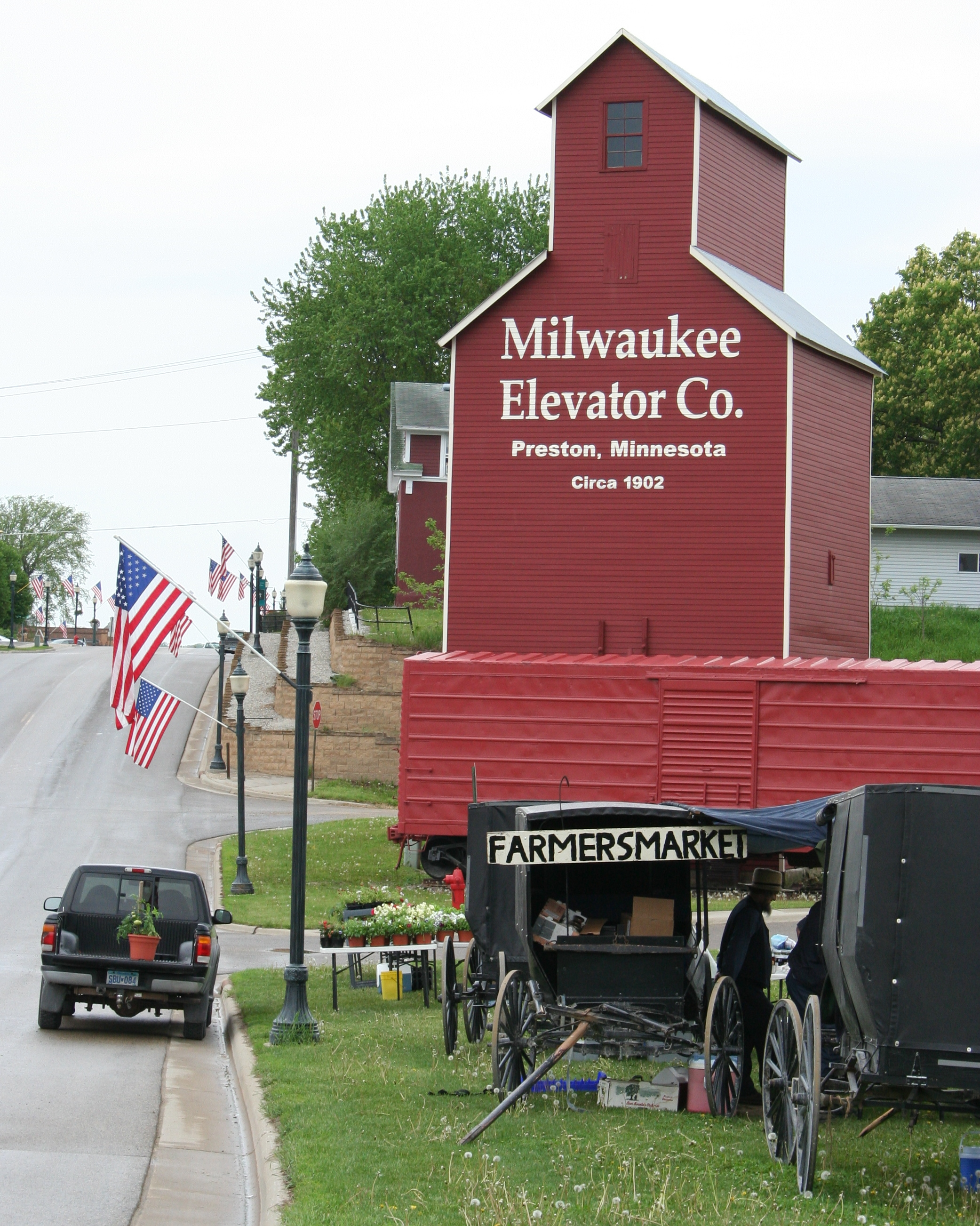 Farmers' market at the historic Milwaukee Elevator on Fillmore Street in Preston, Minnesota.